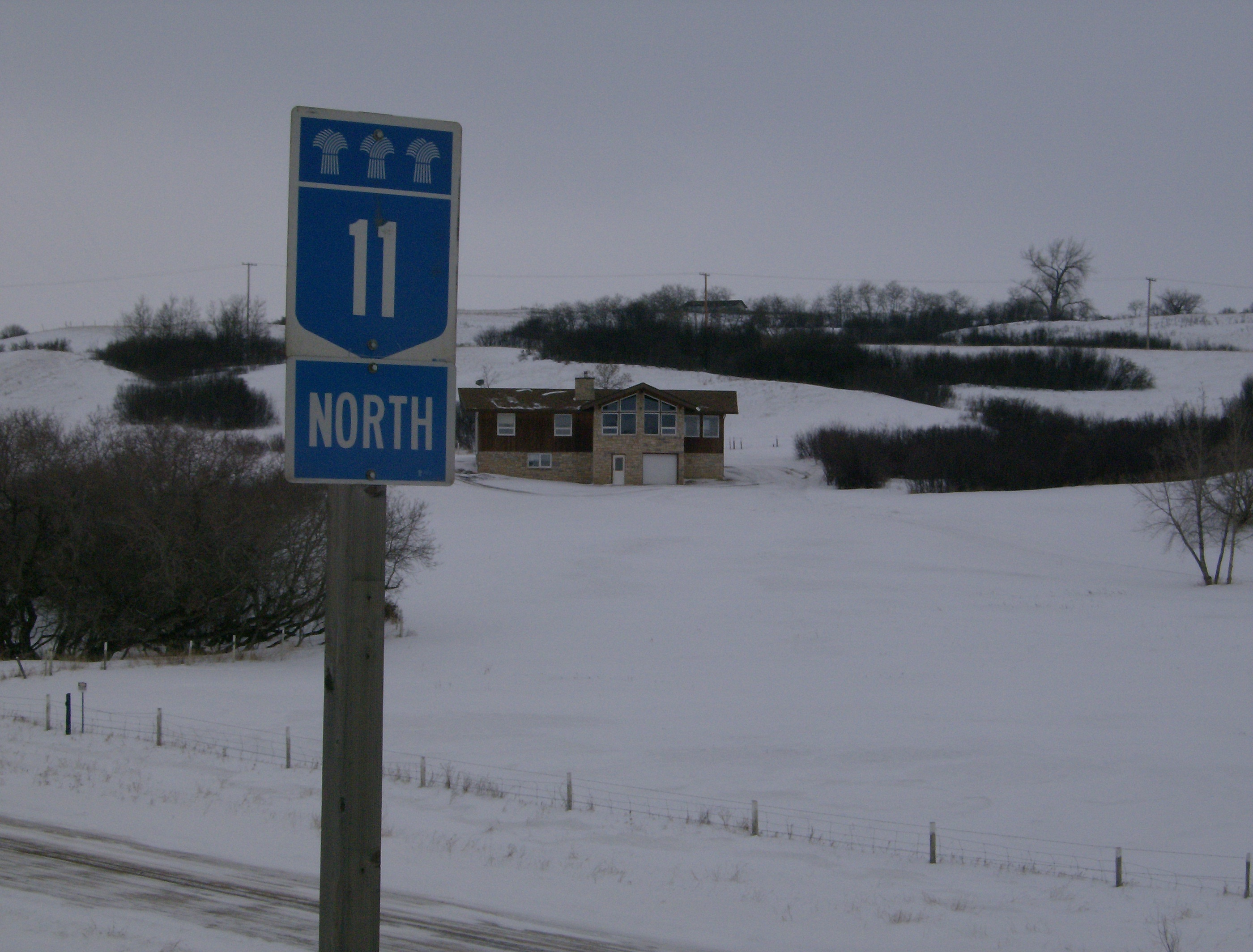 Saskatchewan Highway 11, Qu'Appelle Valley. Also known as Louis Reil trail.